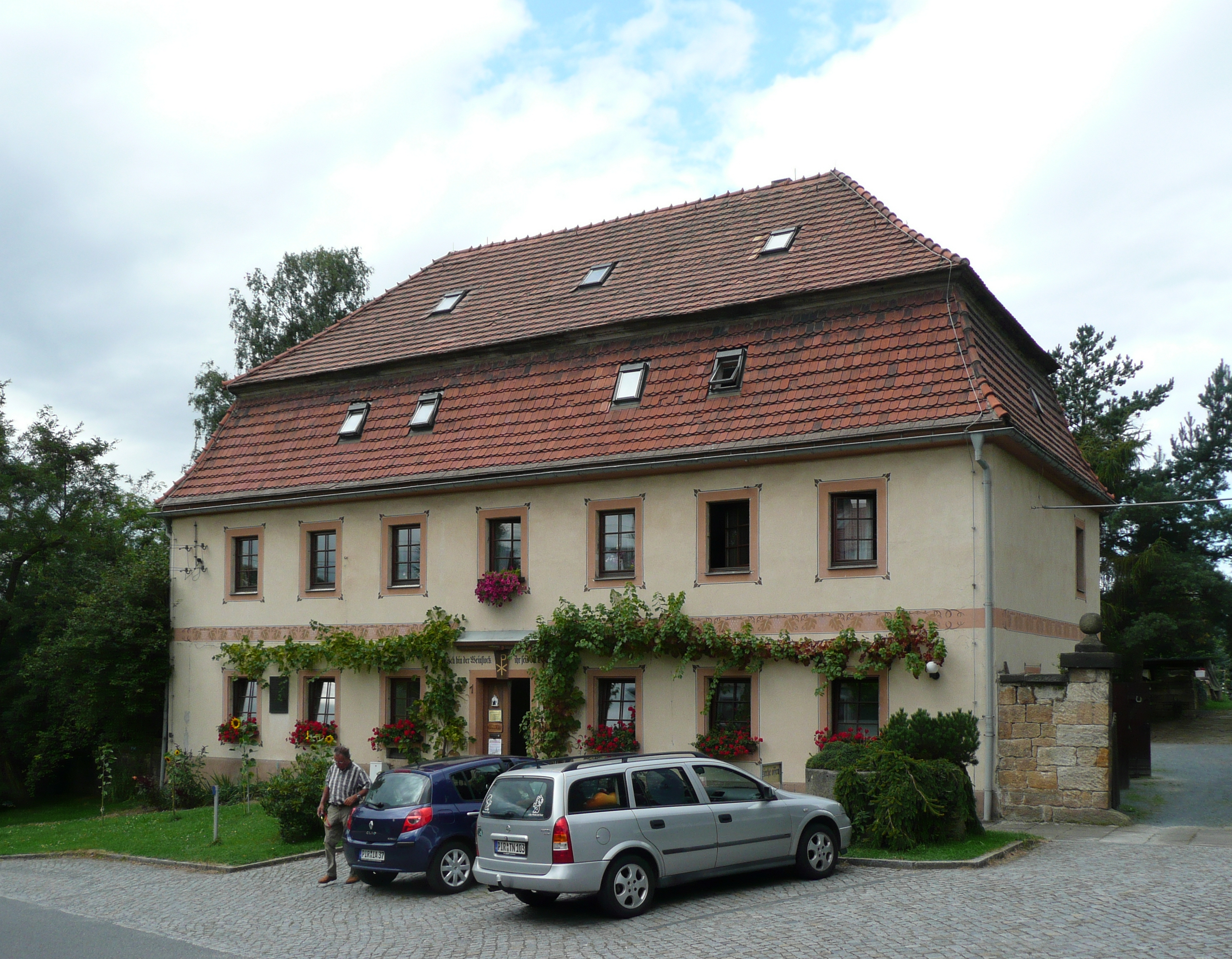 This image shows the rectory in Struppen, birthplace of Wilhelm Leberecht Götzinger (1758-1818), chronicler of the Saxon Switzerland.